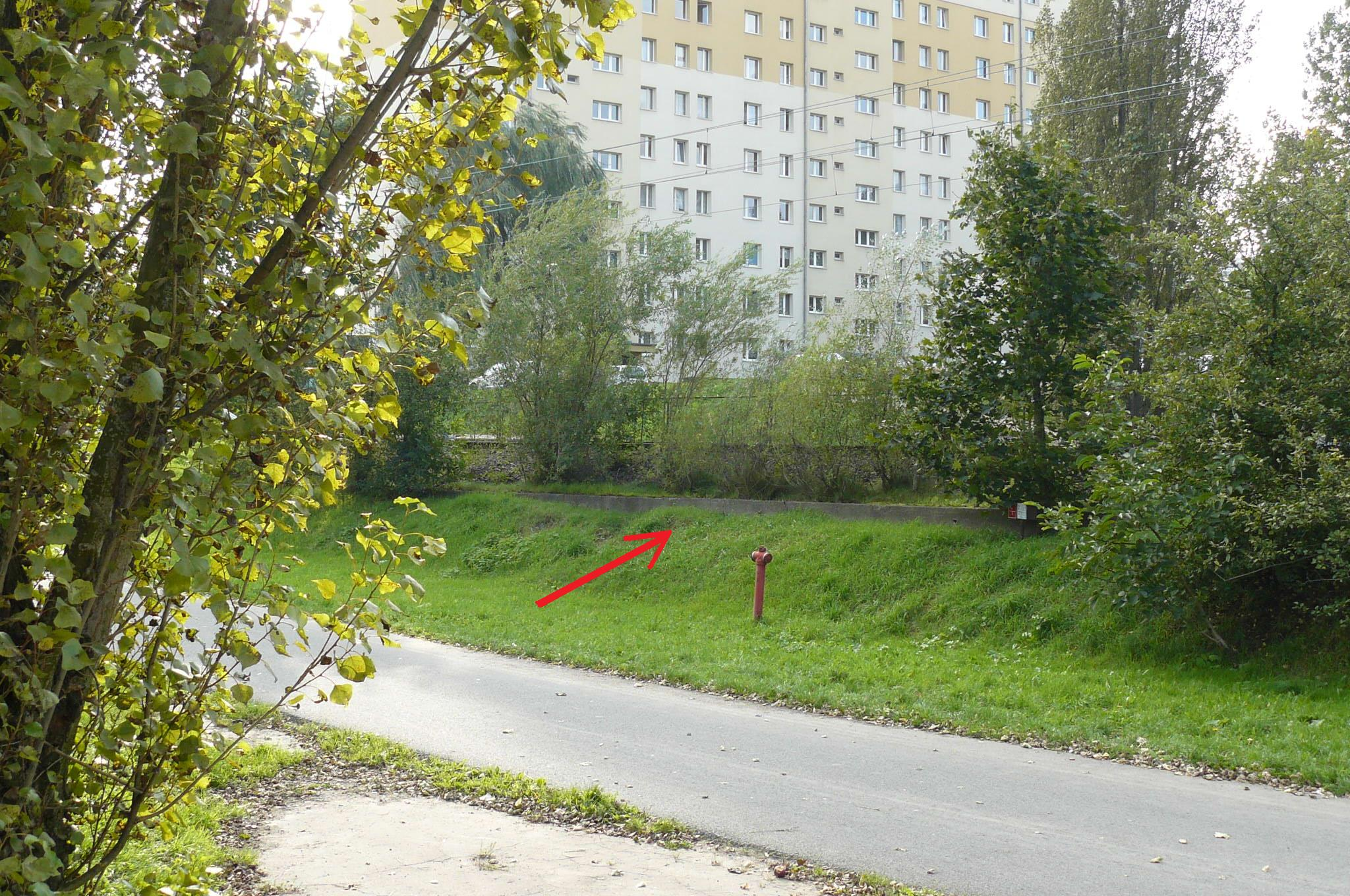 Wierzbak Valley, Poznan, Bonin.